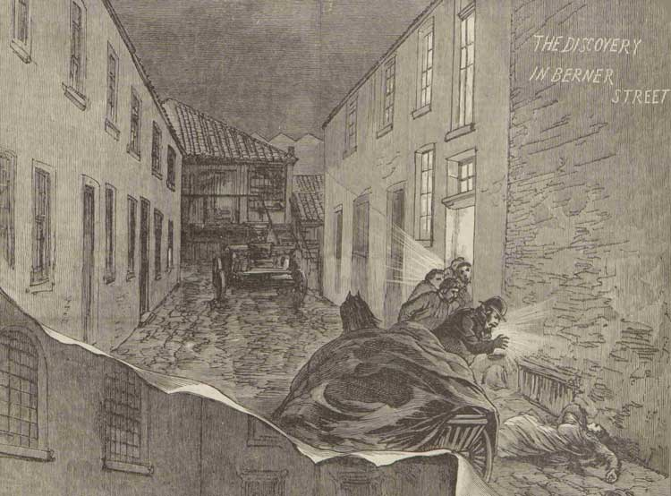 Penny Illustrated Paper - 6th October, 1888 - The Discovery in Berner Street.